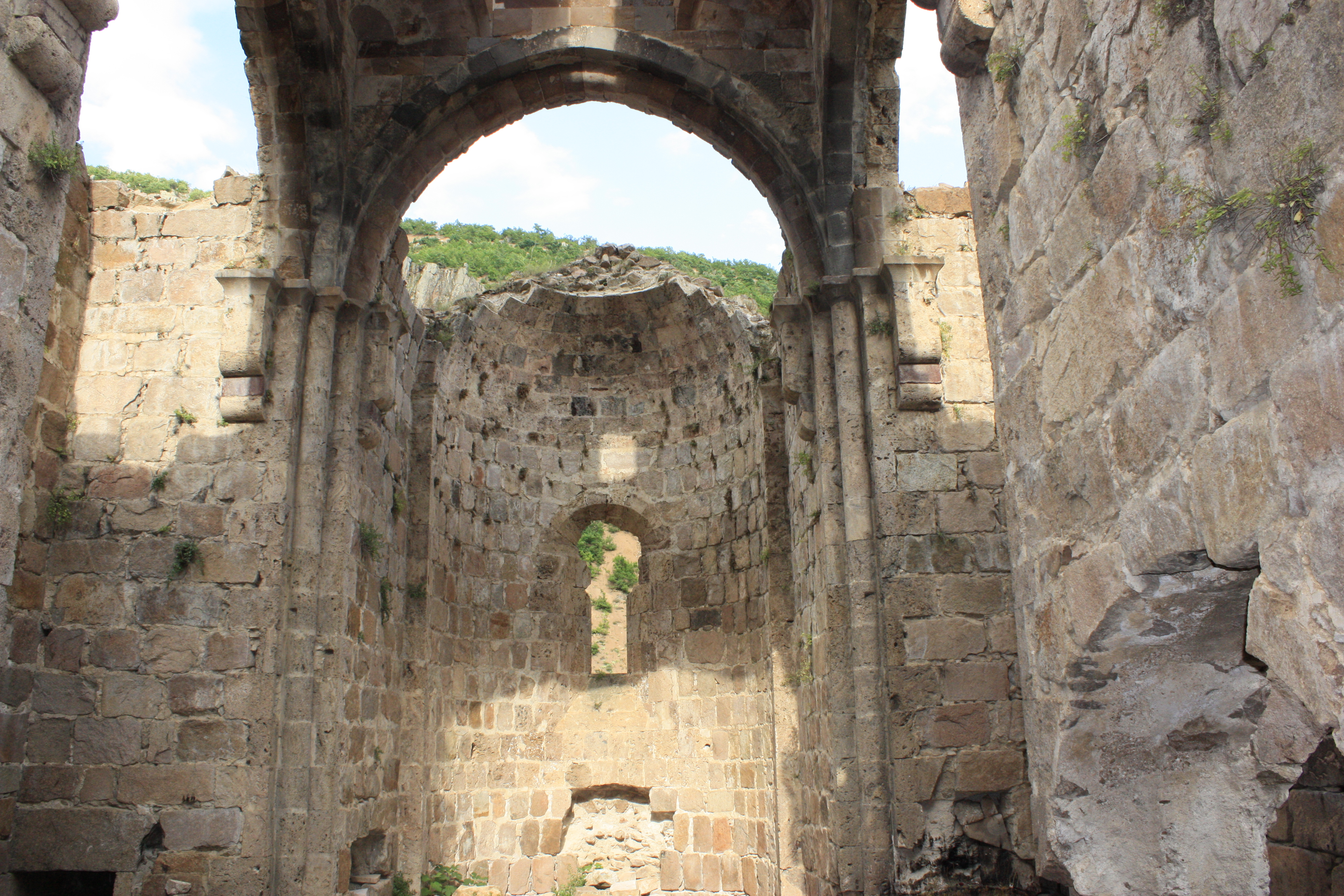 Georgian cathedral Khandzta in historical Georgian region Tao-Klarjeti